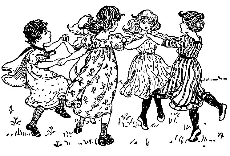 Illustrations from the novel A Book of Nursery Rhymes.